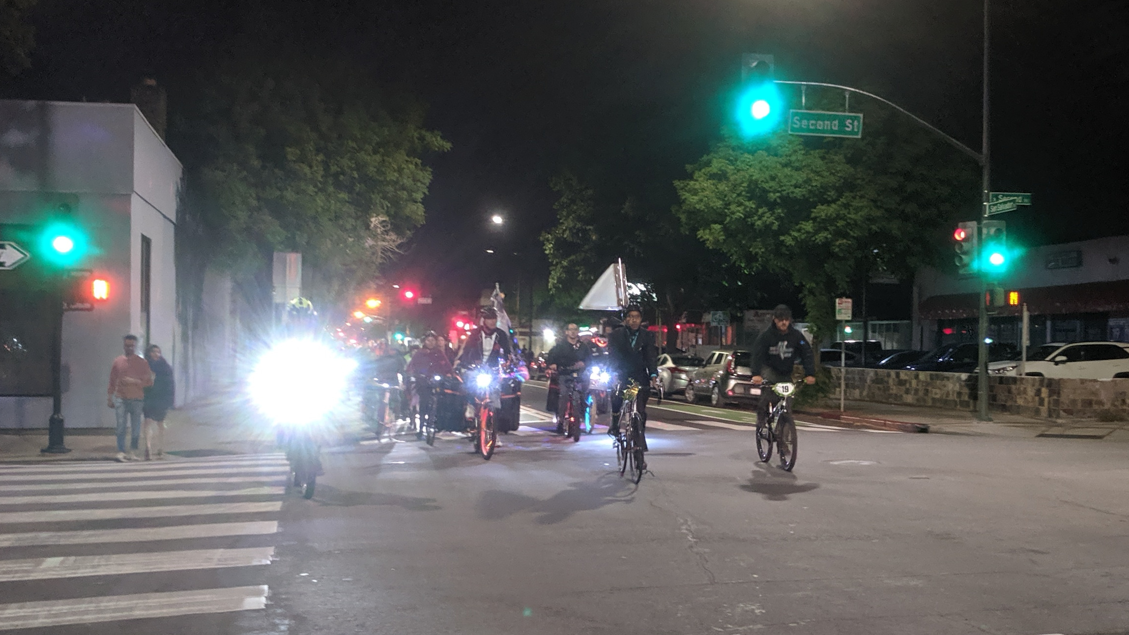 On the May 17, 2019 ride, the San Jose Bike Party group starts going after a traffic light turns green in downtown San Jose.